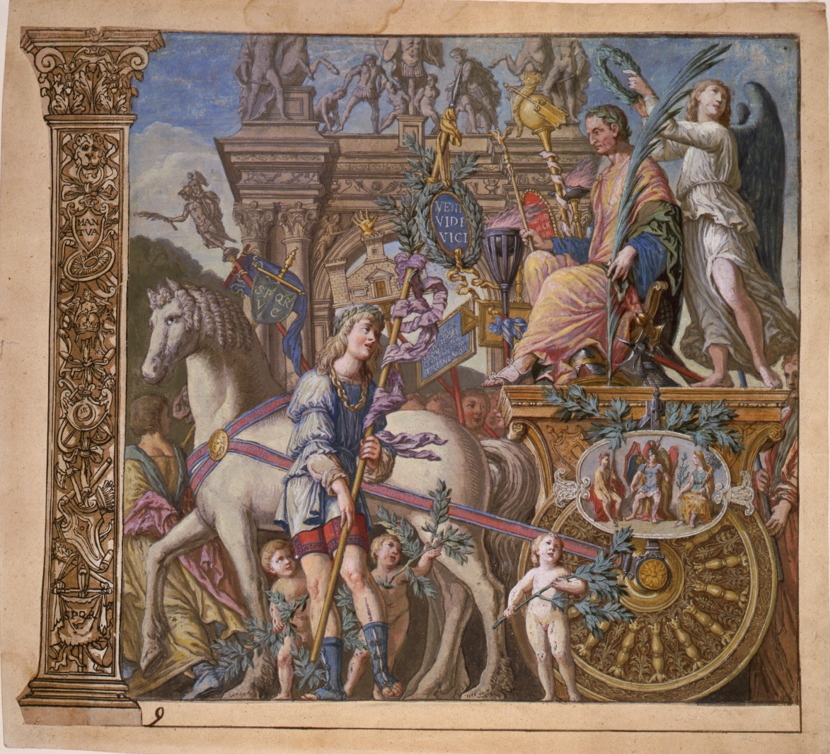 Triunph(us) Caesaris (The triumph of Julius Caesar), plate 9. Plate 9 from series showing people in triumphal procession of Julius Caesar. After the painting by Andrea Mantegna. Chiaroscuro woodcut with gouache.